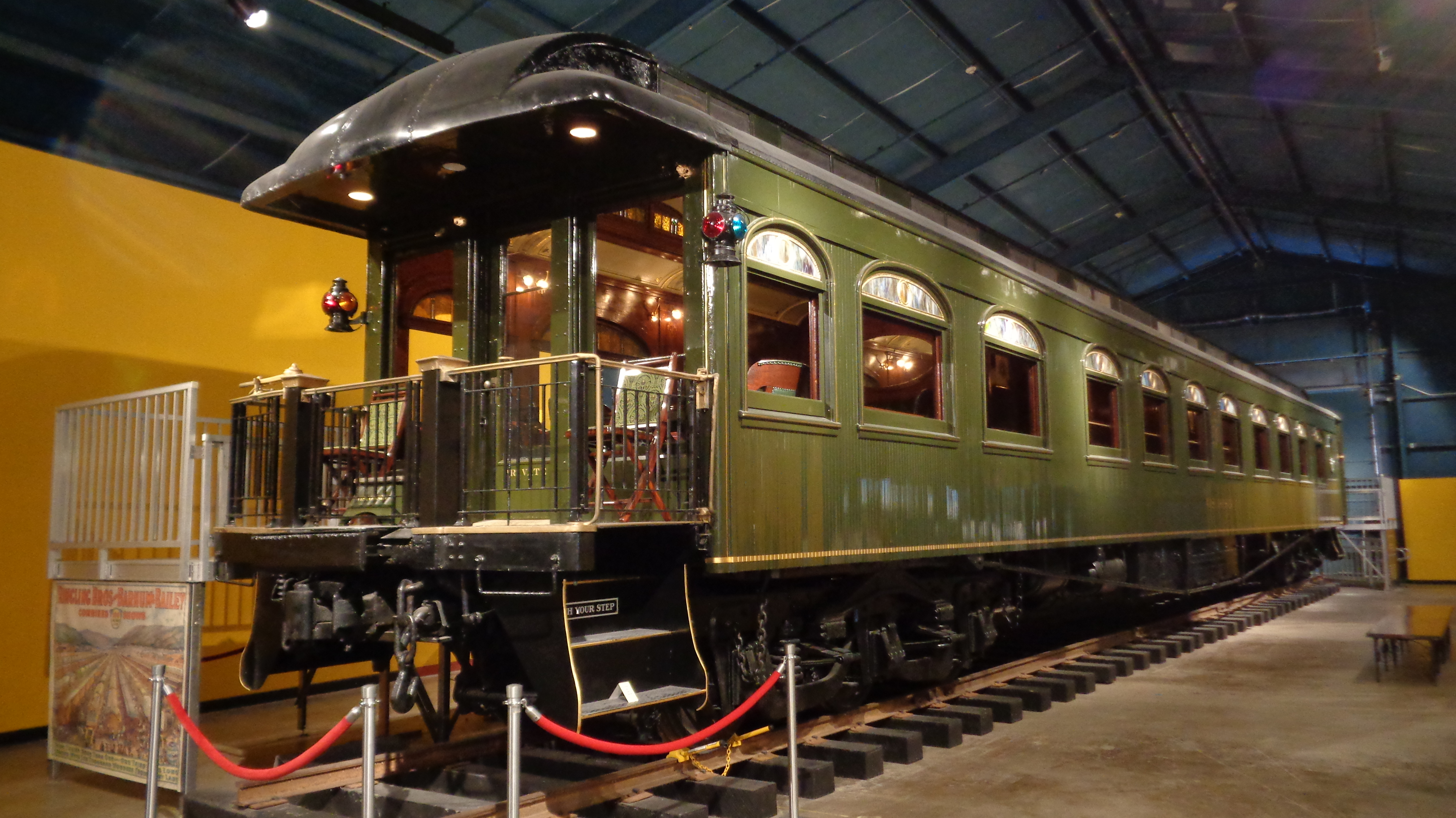 The Wisconsin Railroad Car within the Ringling Museum in Sarasota, Florida, in 2019.